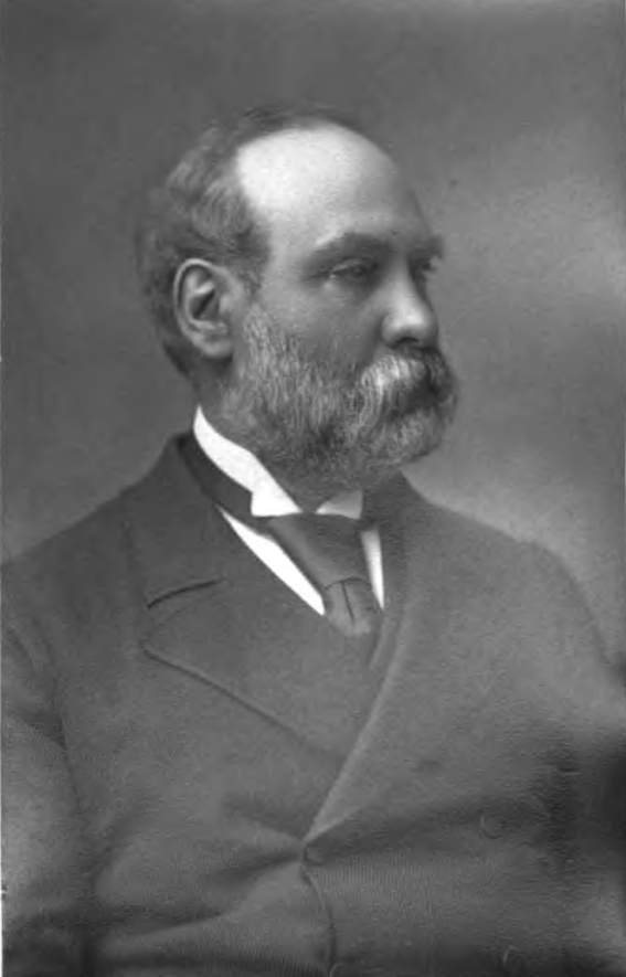 Portrait of the British liberal politician and member of parliament George Hasting